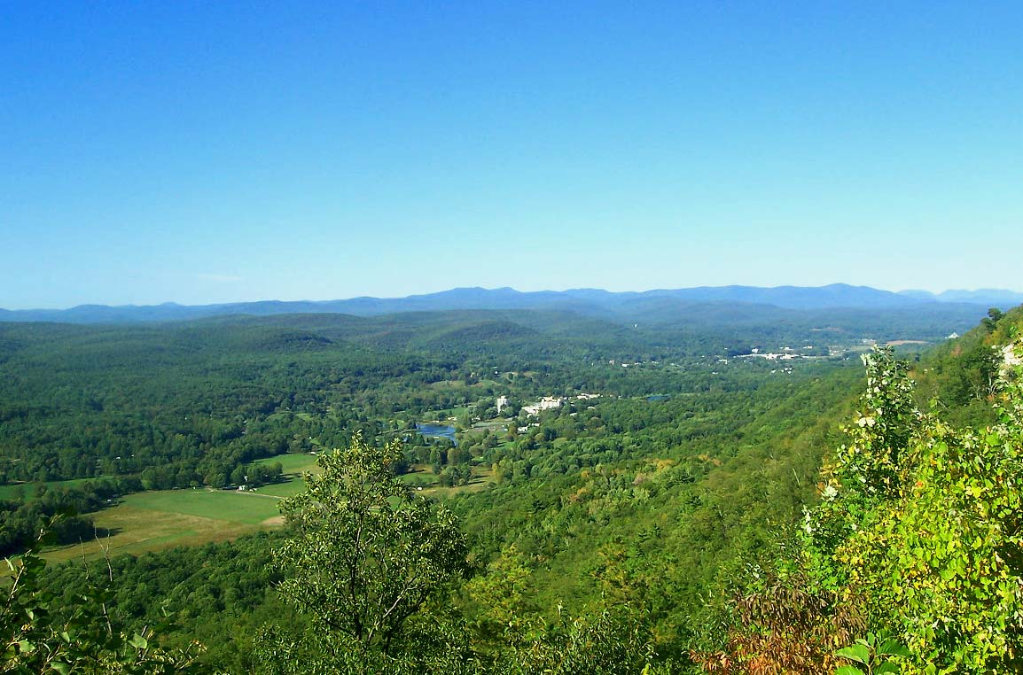 Photographed by Daniel Case 2005-09-28